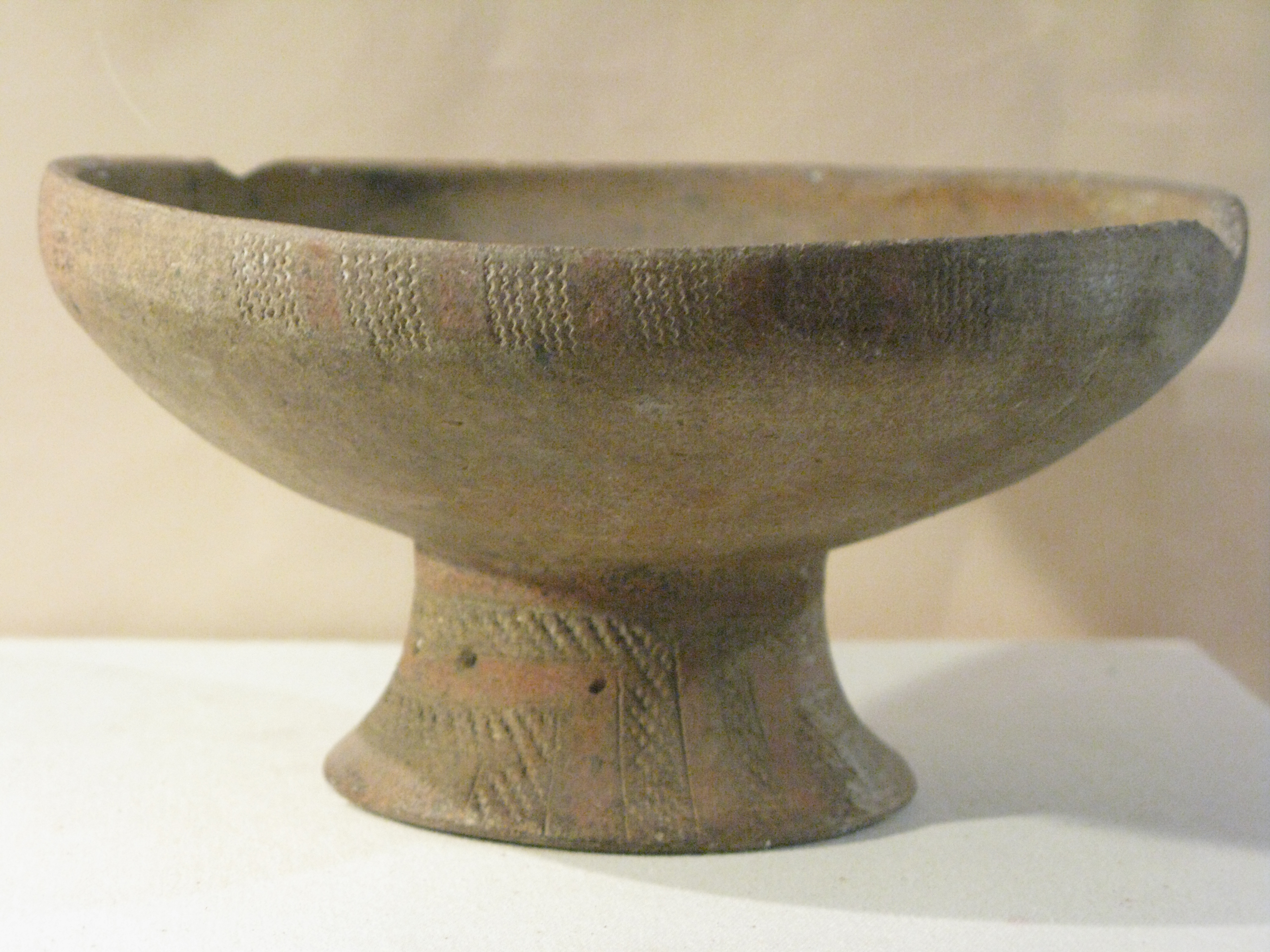 Fruit tray, pottery, Sa Huynh Culture, circa 2,500-2,000 years B.P.